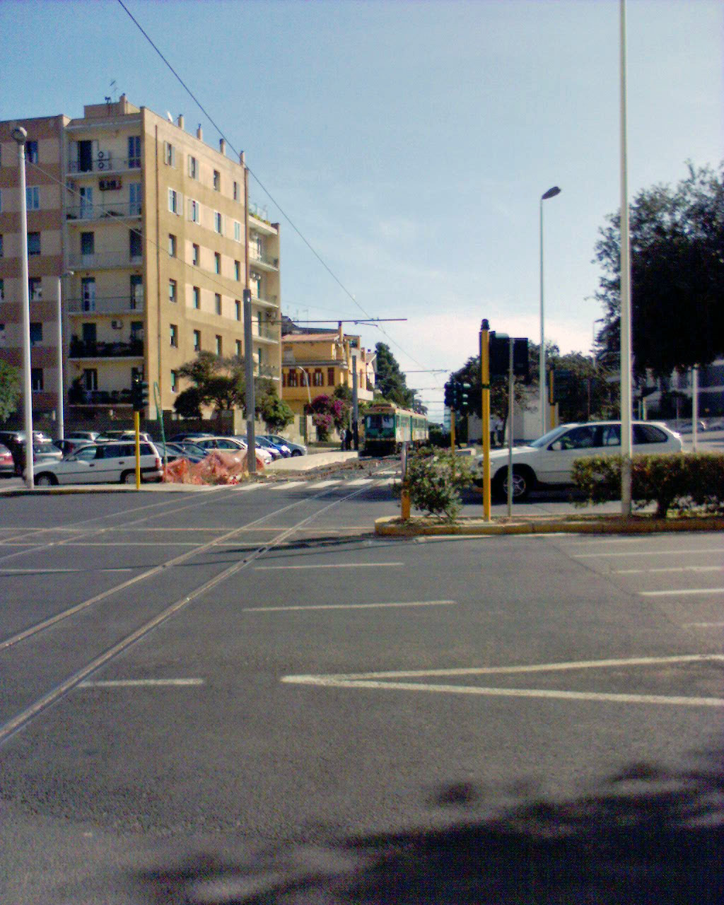 The Ferrovie della Sardegna halt of largo Gennari in Cagliari, Sardinia, Italy, terminus from 2004 until 2008 of the railway Cagliari-Isili and now halt of the light railway of Cagliari